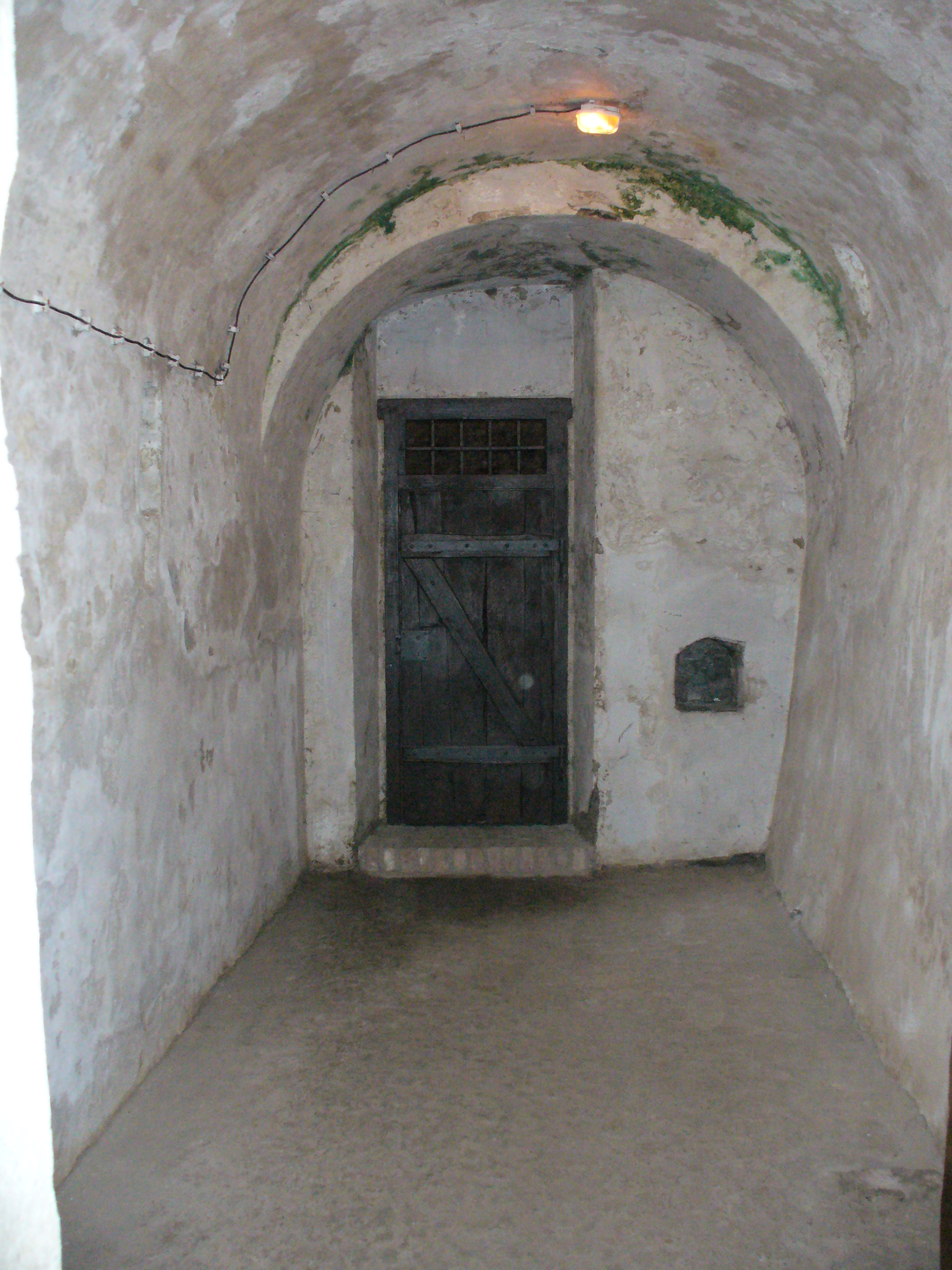 Casemates, Špilberk Castle, Brno, Czech Republic